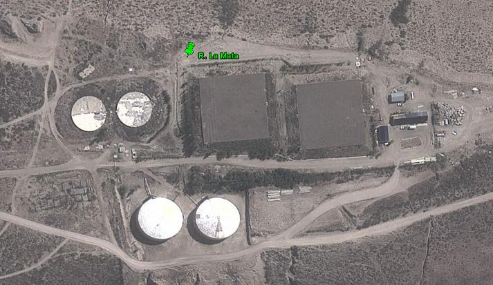 Foto satelital de las reservas de agua potable de Puesto La Mata